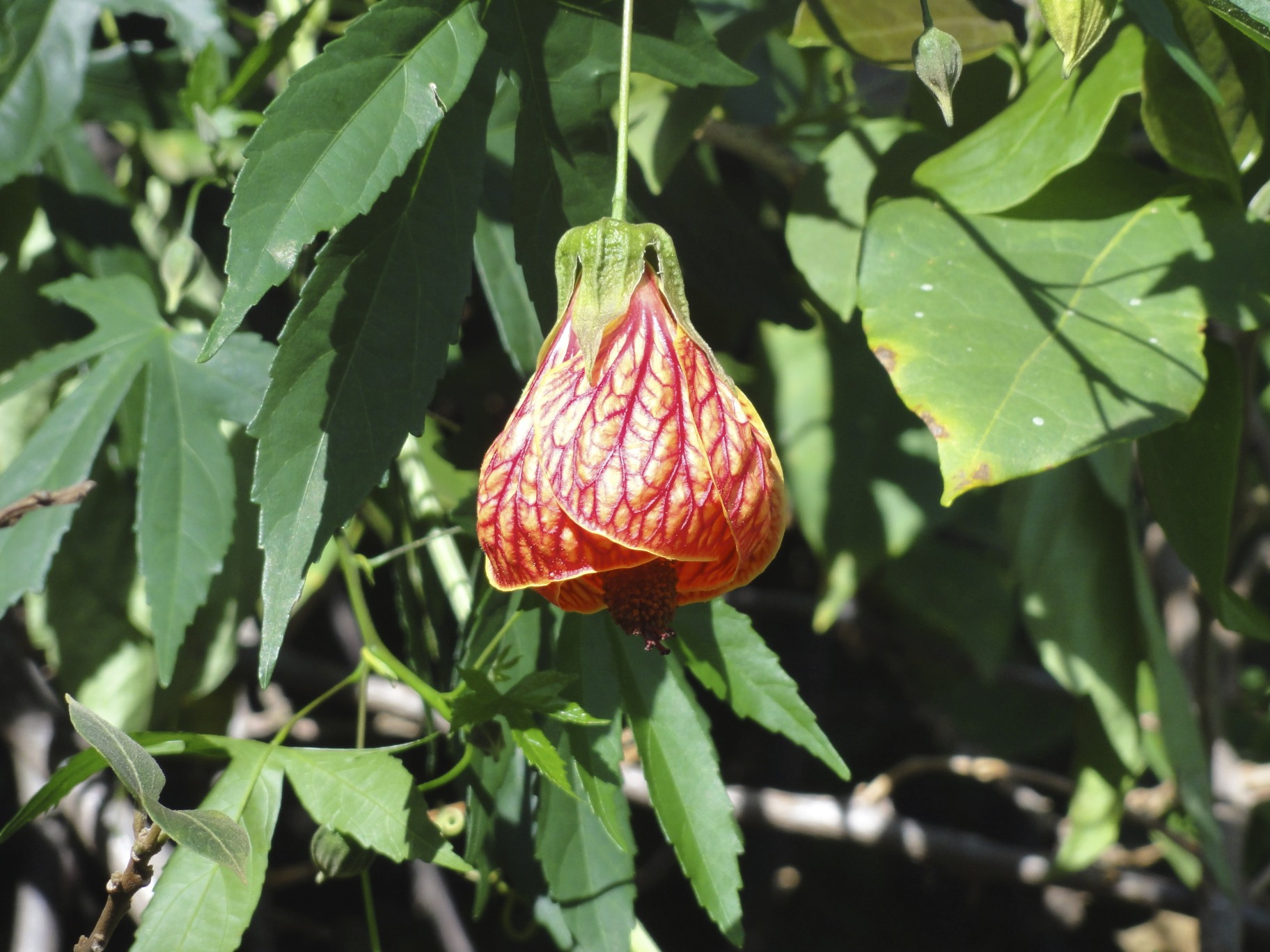 The Redvein Abutilon (Abutilon pictum) taken in São Bento do Sapucái in the State of São Paulo, Brazil.